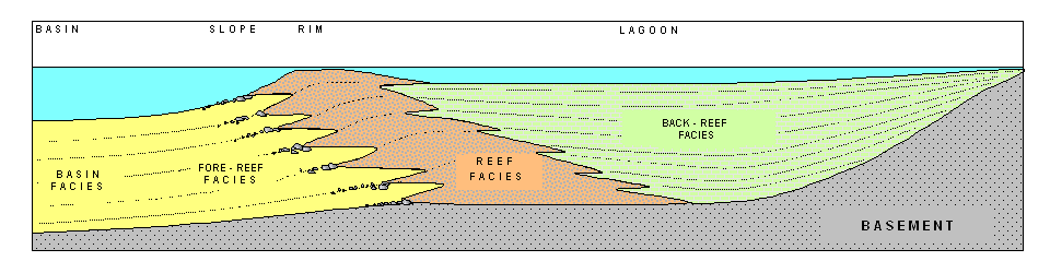 Generalized geologic section of a carbonatic platform. Text in English.